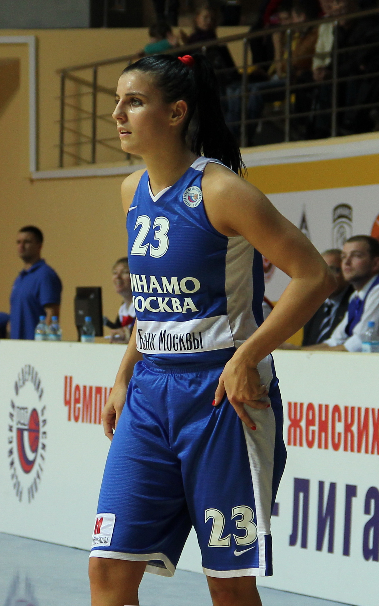 Russia, Vologda, Ana Dabović in game «Vologda-Chevakata» vs «Dinamo» (Moscow)